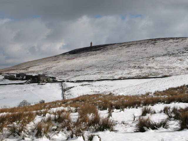 Darwen Tower from near Tockholes